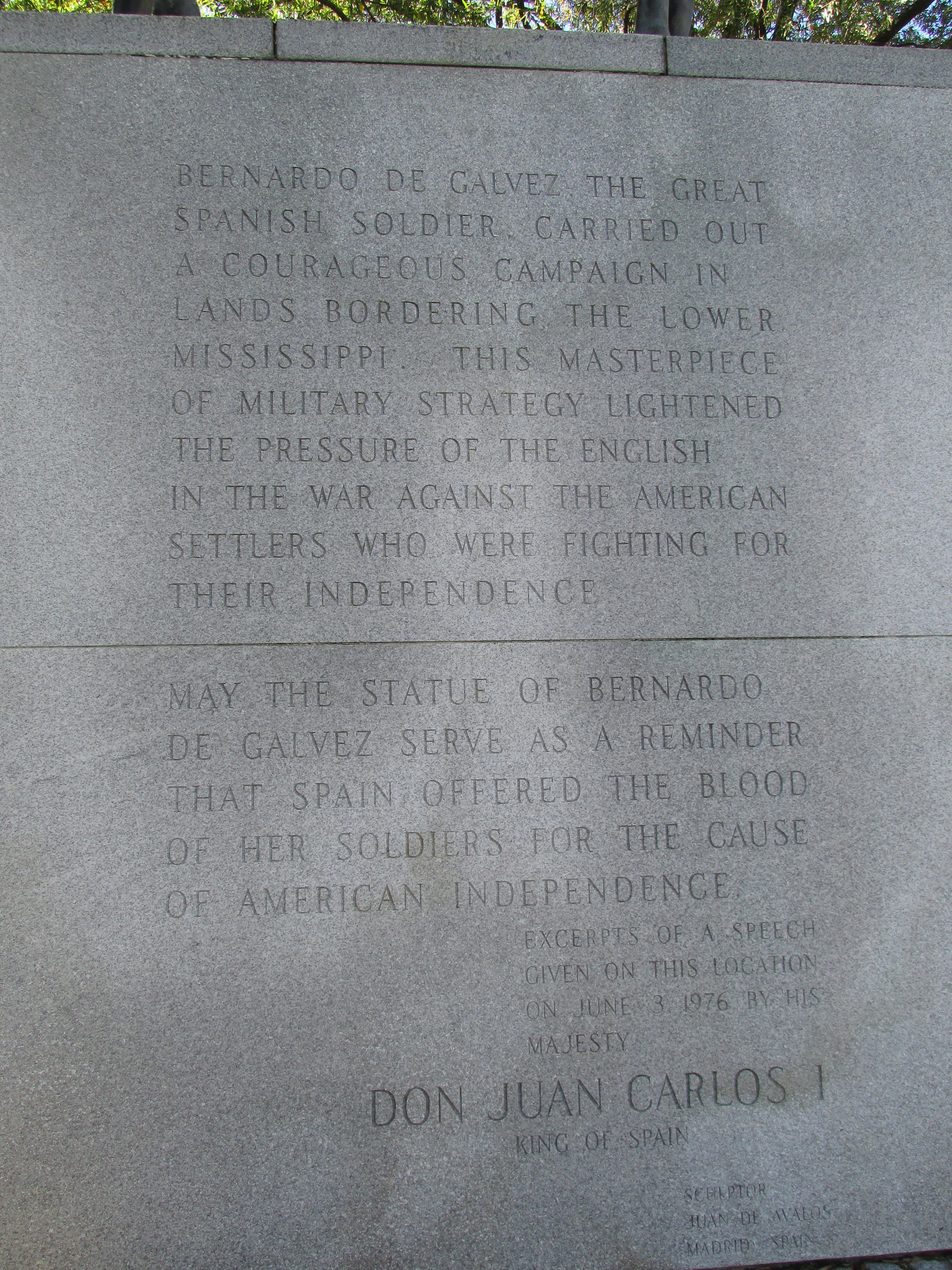 Bernado de Galvez (Count de Galvez) 1746–1786, bronze equestrian statue, by Juan de Ávalos outside the Department of State, Foggy Bottom, Washington, D.C.